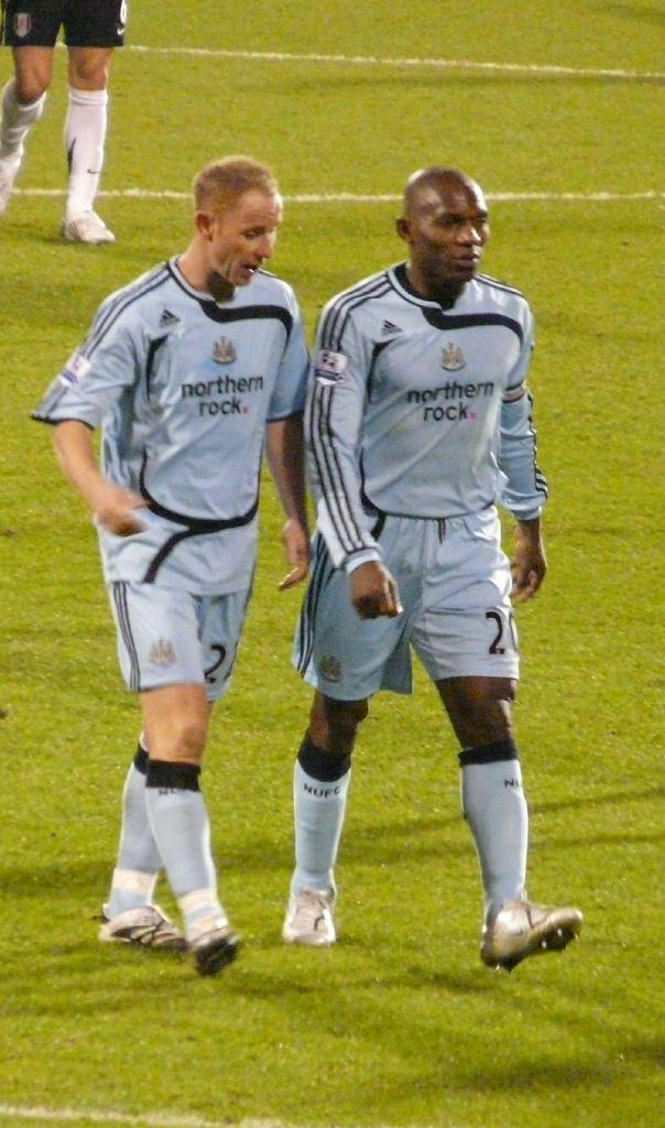 Football (soccer) players Nicky Butt and Geremi Njitap